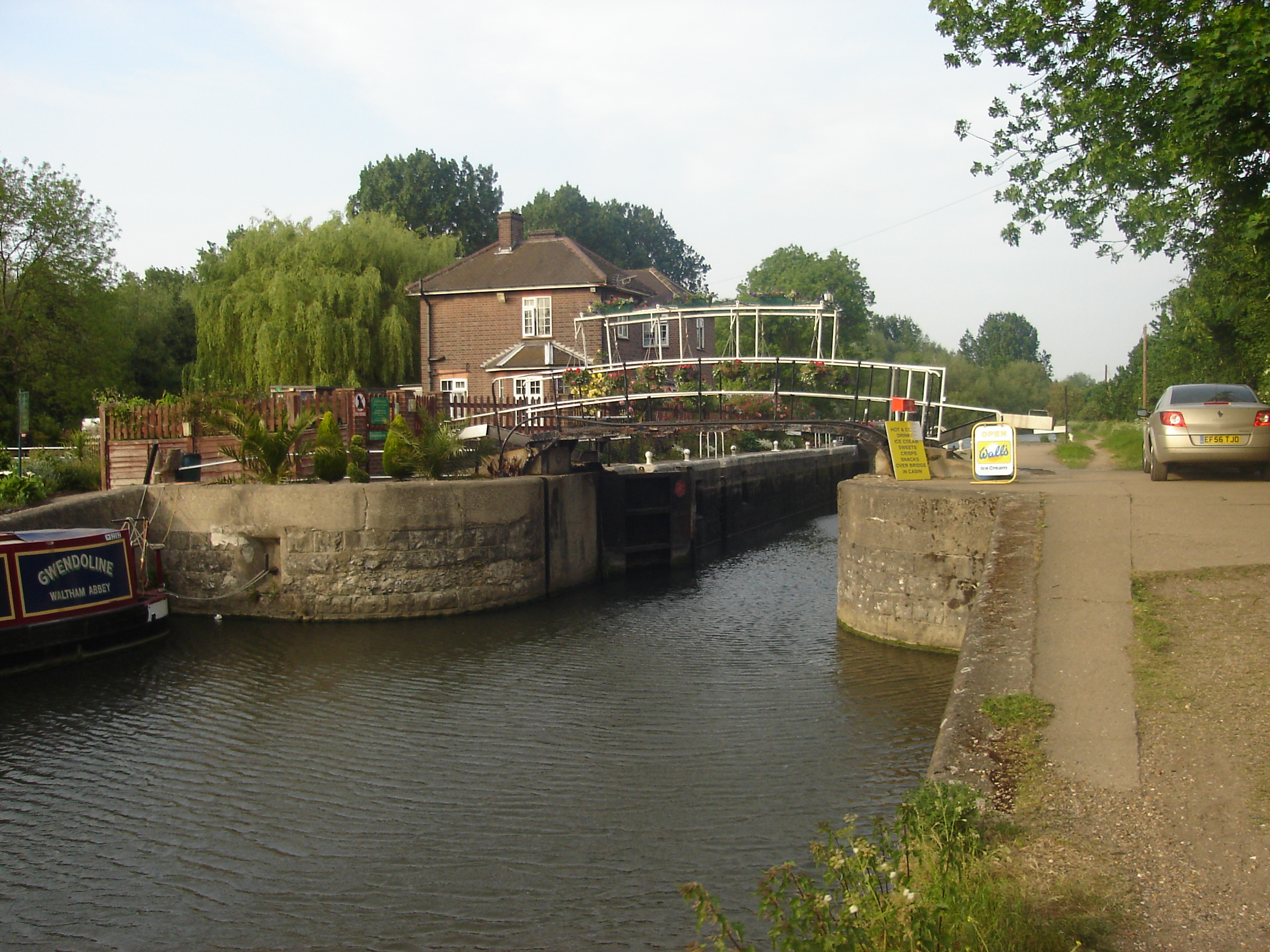 Picture of Carthagena Lock, Broxbourne